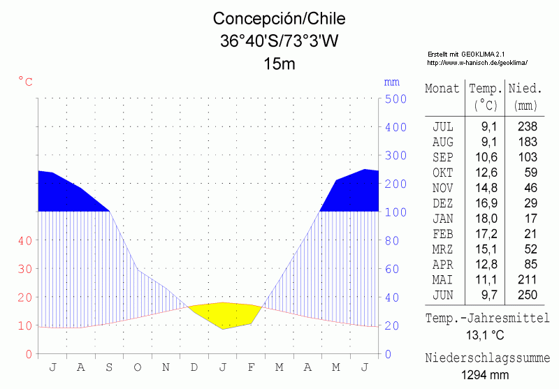 climate chart in the format by Walther and Lieth, metric, °Celsisus and millimeters, made with Geoklima 2.1